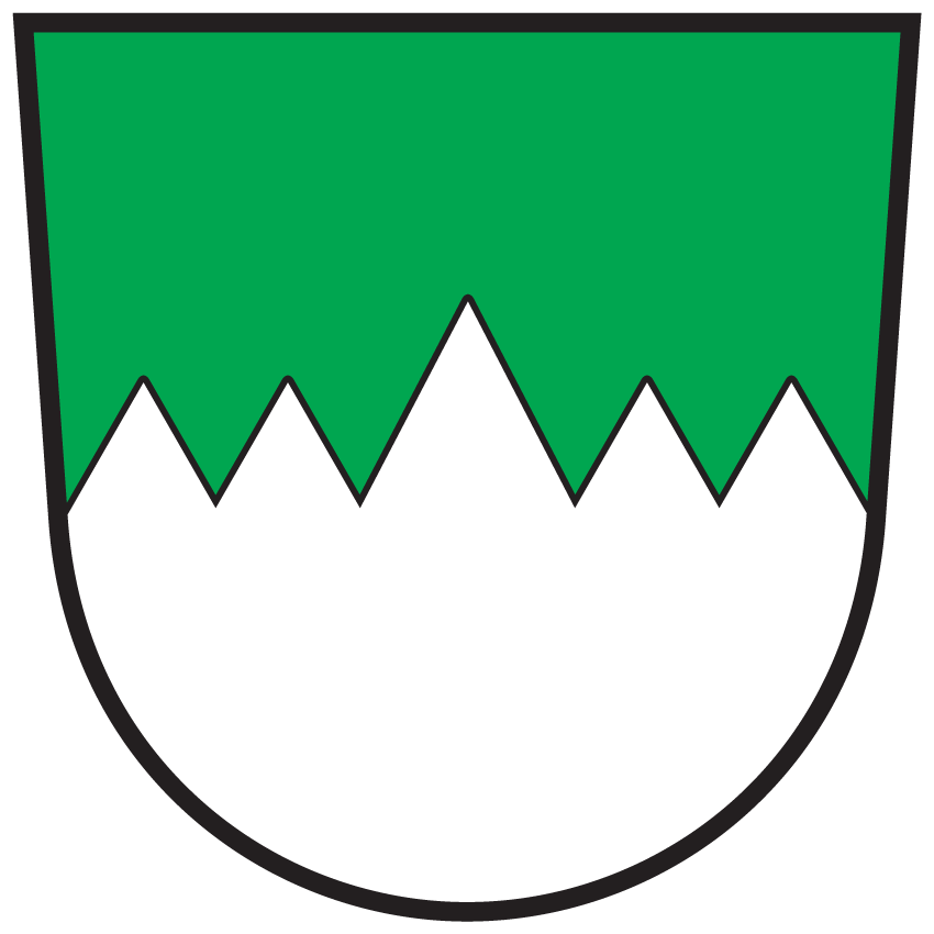 Source: "Fahnen-Gärtner GmbH, Mittersill" This file depicts a coat of arms. The composition of coats of arms are generally public domain with respect to copyright laws, and may be reproduced freely. This corresponds to the international traditional usage, and is explicitly stated in some national copyright laws. Some compositions, of more recent origin, may be copyrighted. This is not a valid license as such, being a "public domain" statement for the coat of arms definition only. It must be completed with the copyright tag associated to the picture creation. See Commons:Coats of arms for further information. Please note that this applies only to the coat of arms definition (composition / description). The representation of a coat of arms is an artistic creation, subject as such to copyright laws. Restriction of use - Legal notice: Most of the time, the usage of coats of arms is governed by legal restrictions, independent of the status of the depiction shown here. A coat of arms represents its owner. Though it can be freely represented, it cannot be appropriated, or used in such a way as to create a confusion with or a prejudice to its owner. Usage on Commons: Please provide licence information for the coat of arm representation, information for the author of the picture, and the source if not self-made work.